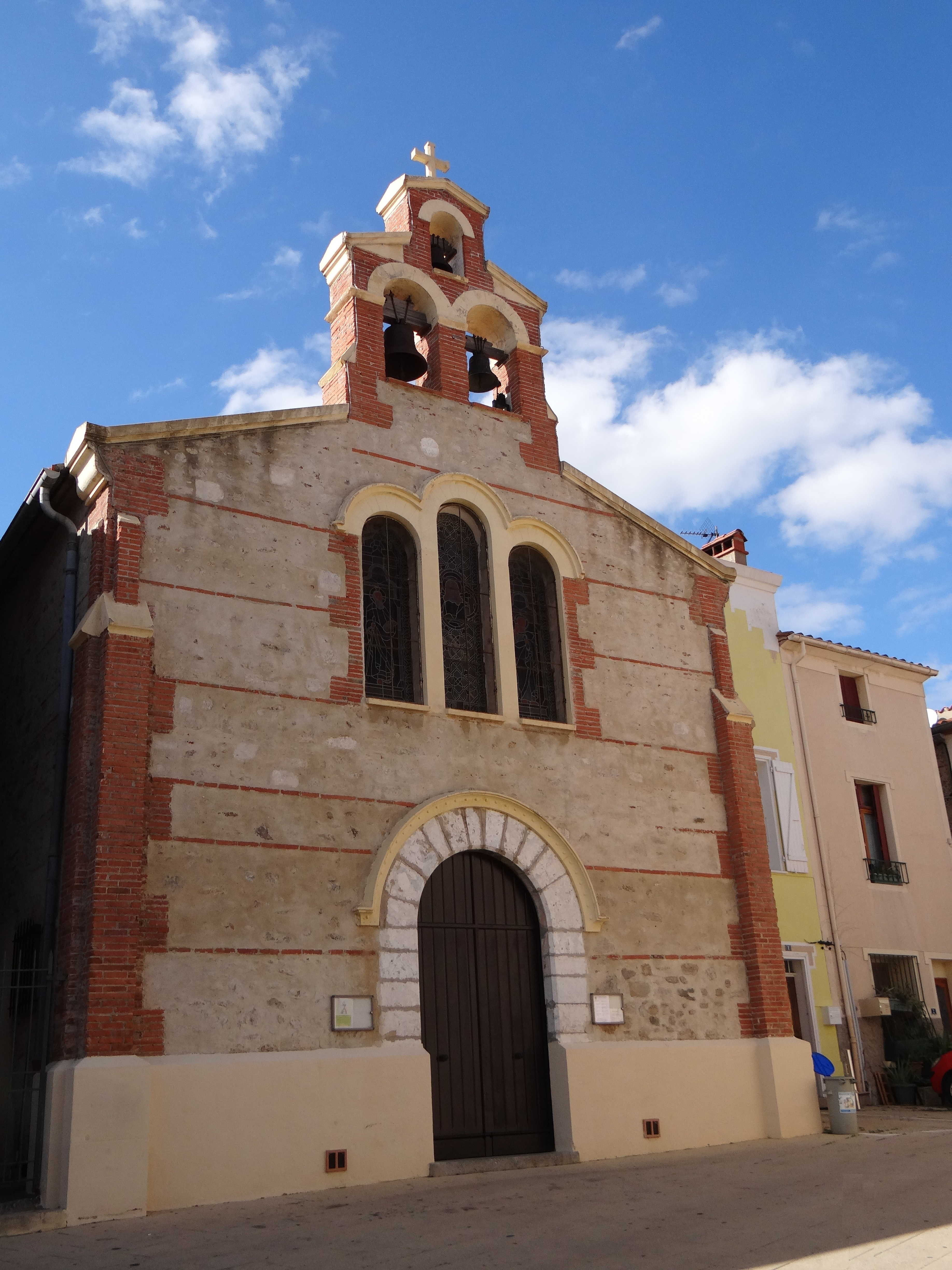 Parish Church of St. Eulalia and St. Julie Alenya, Pyrenees-Orientales, France.